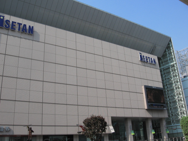 Isetan department store Tachikawa shop, Tachikawa.